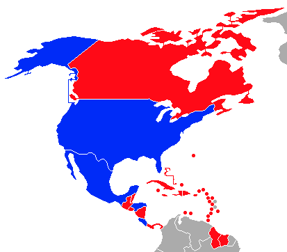 Status of countries with respect to 2014 FIFA World Cup: Team qualified Team may qualify Cannot qualify - games to play Cannot qualify - eliminated Country is not a CONCACAF member